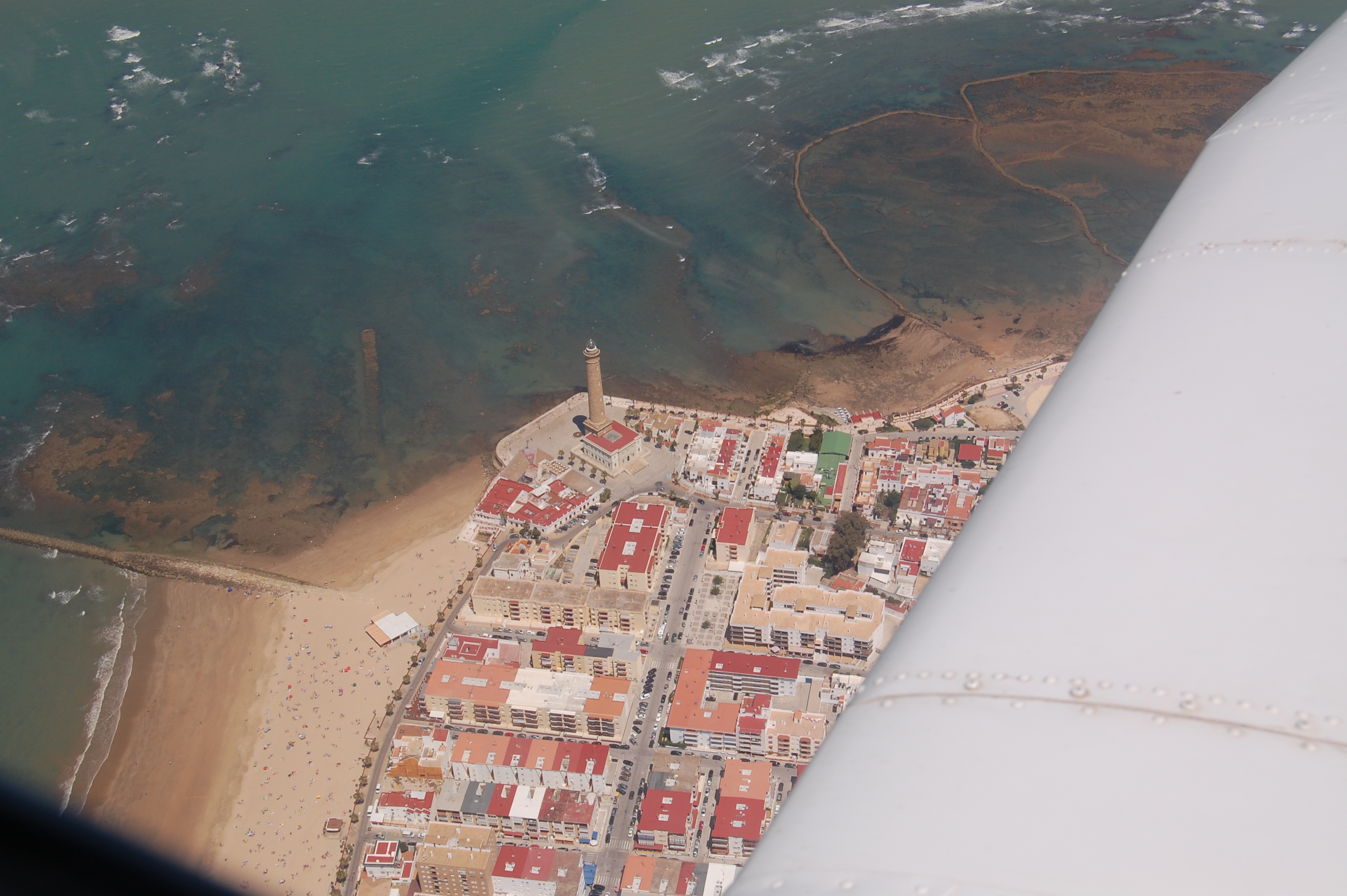 This is an aerial photo of Chipiona's lighthouse